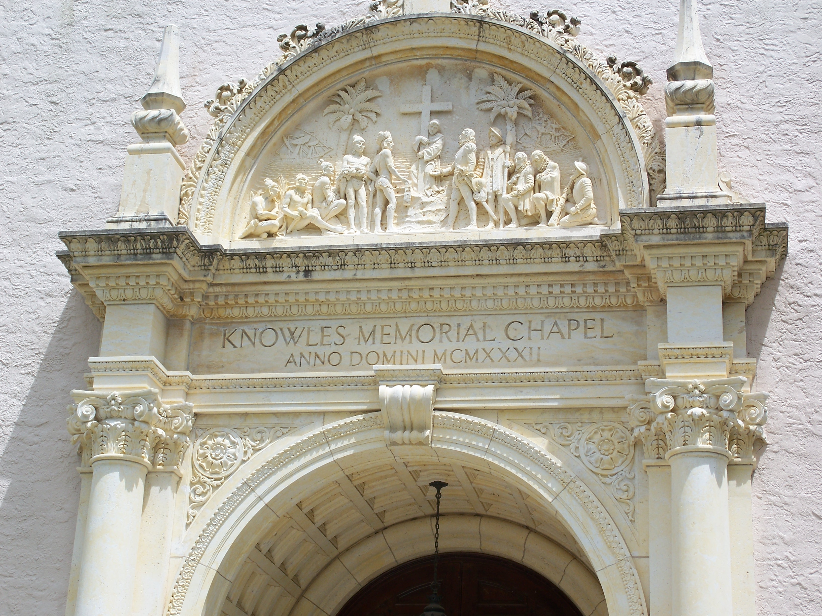 Carving over entrance to Knowles Chapel, on the Rollins College campus in Winter Park, Florida